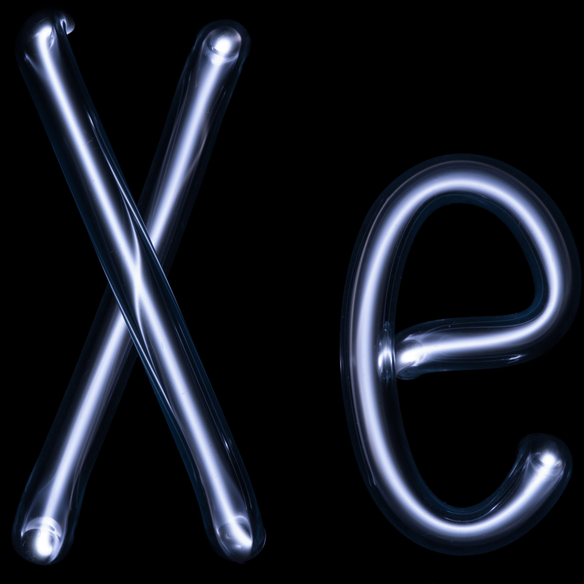 Image of a xenon filled discharge tube shaped like the element’s atomic symbol.